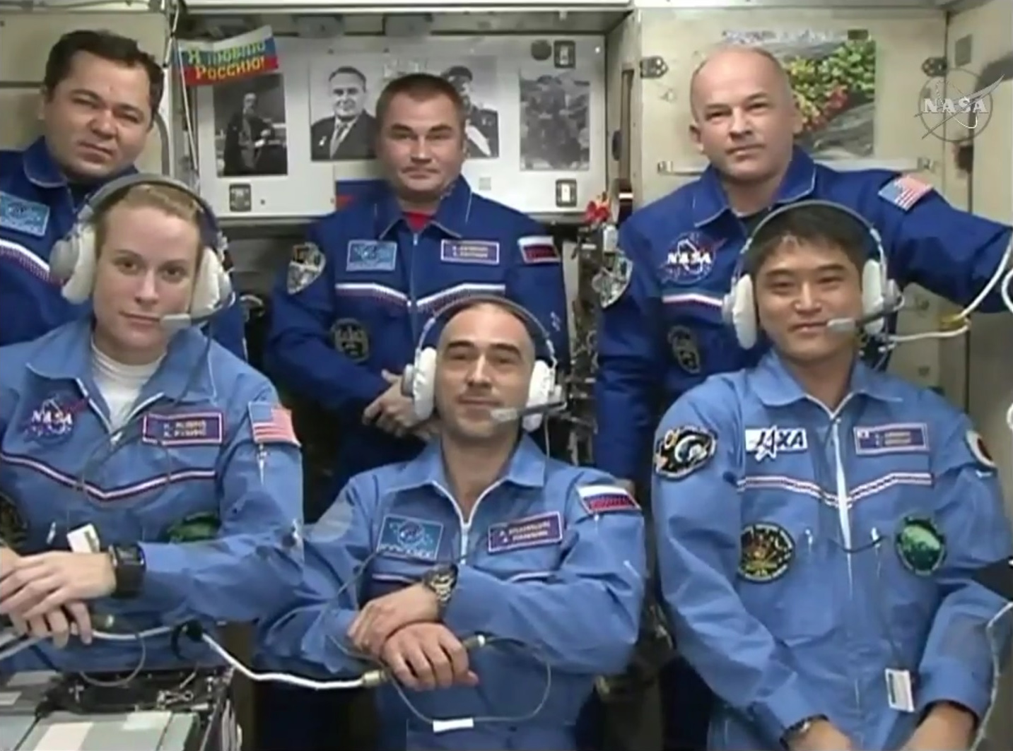 ISS Expedition 48 together in space